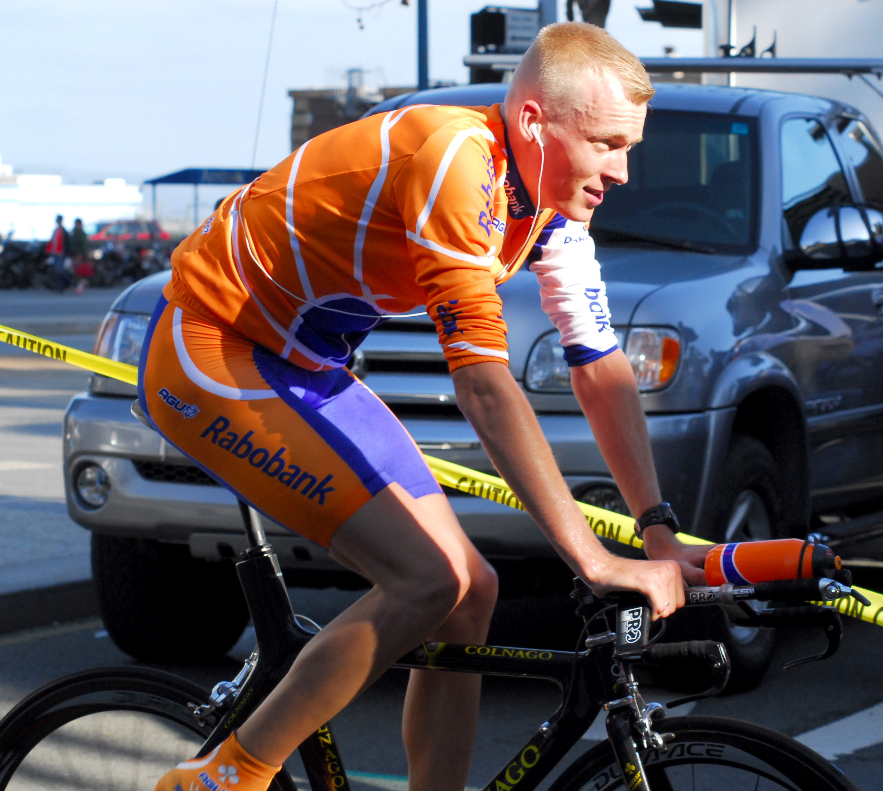 Robert Gesink at the Tour of California